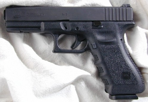 Glock Pistol Model 17 (Glock 17), third generation